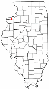 Category:Illinois city locator maps